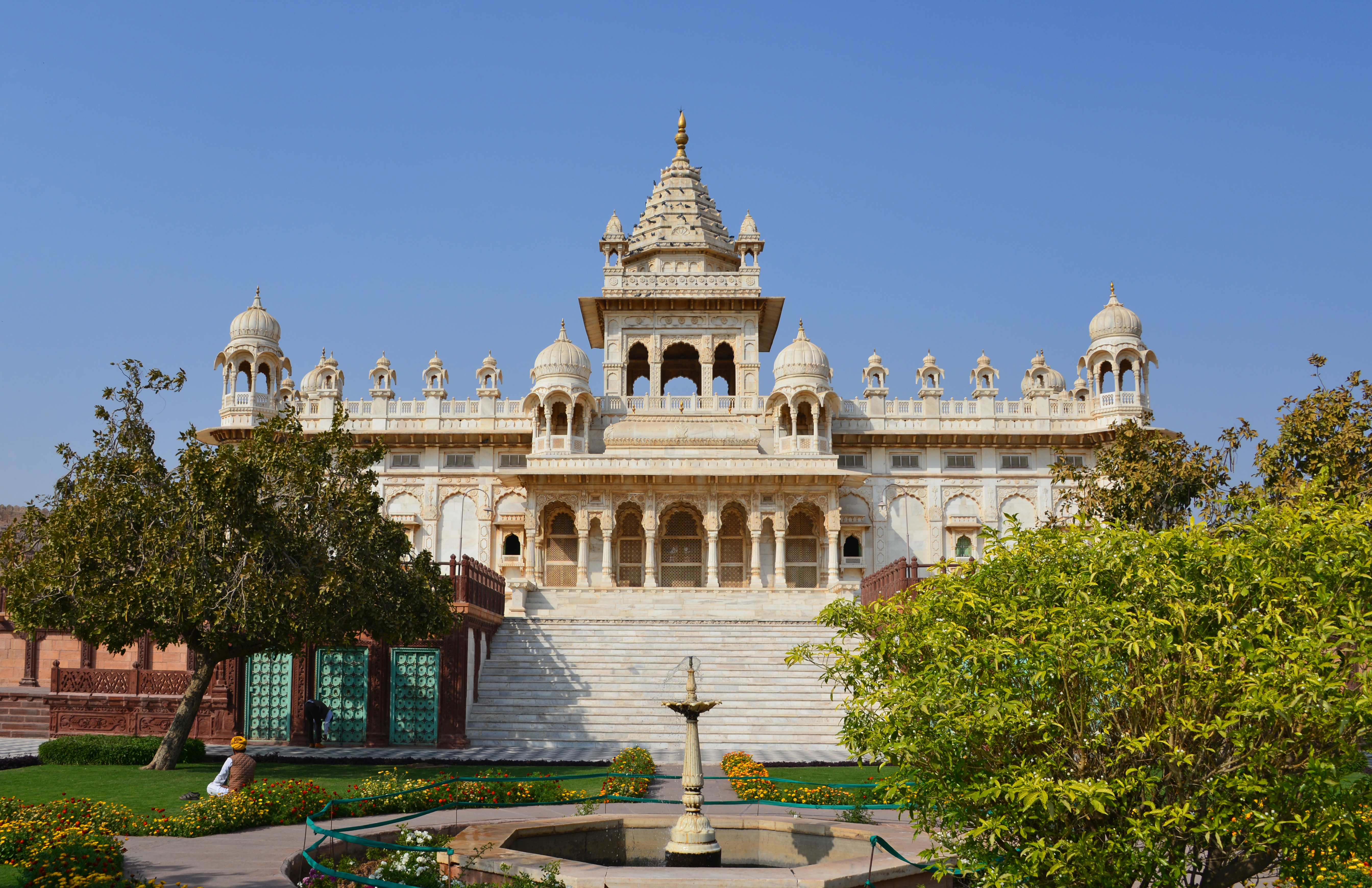 Jaswant Thada cenotaph in Jodhpur, India